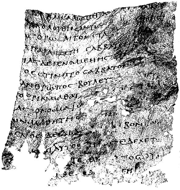 Dura Parchment 24, fragment of Tatian's Diatessaron, in facsimile edition (Kraeling 1935)